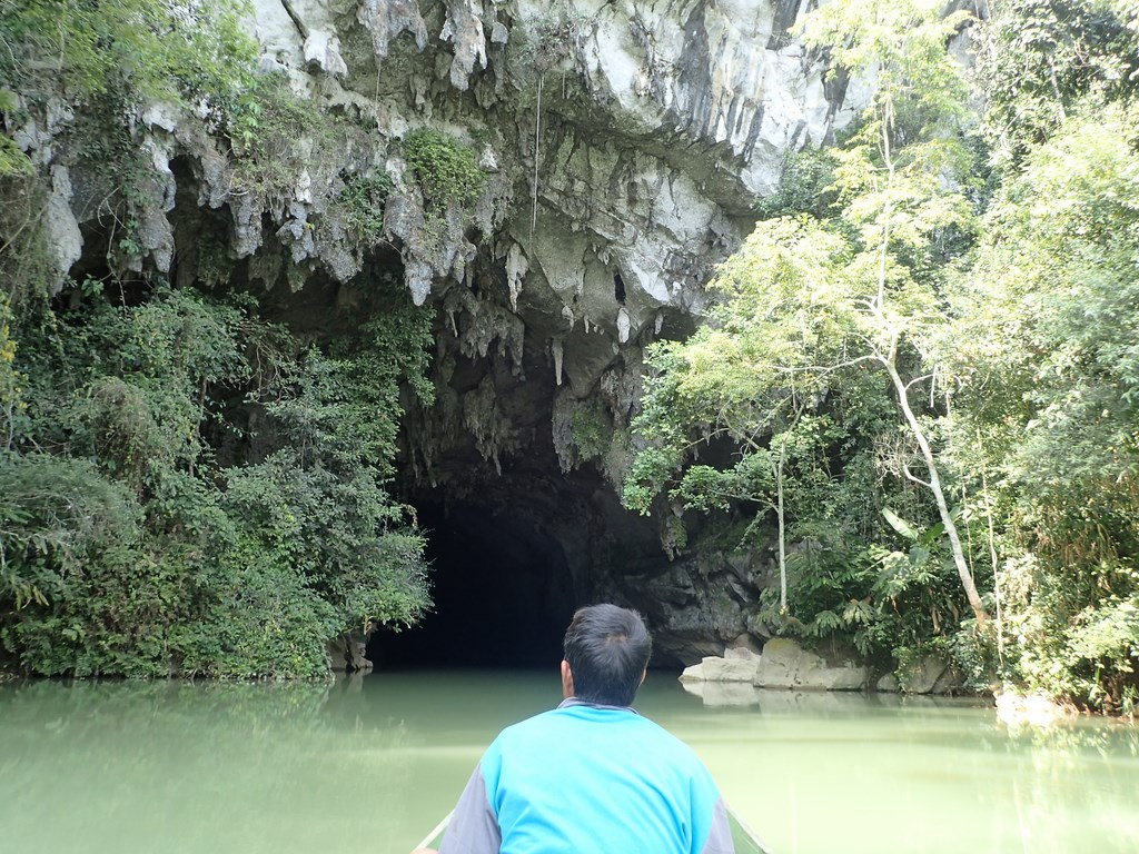 Tham Pha Ka, South cave entrance. The Nam Fuang River outflows from the cave.